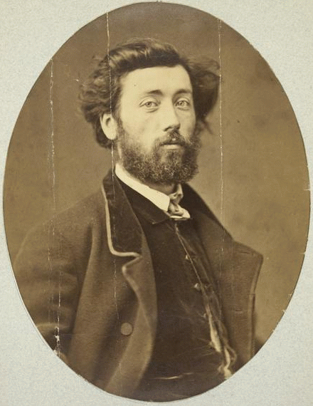 Portrait d'Antoine Vollon (1833-1900)